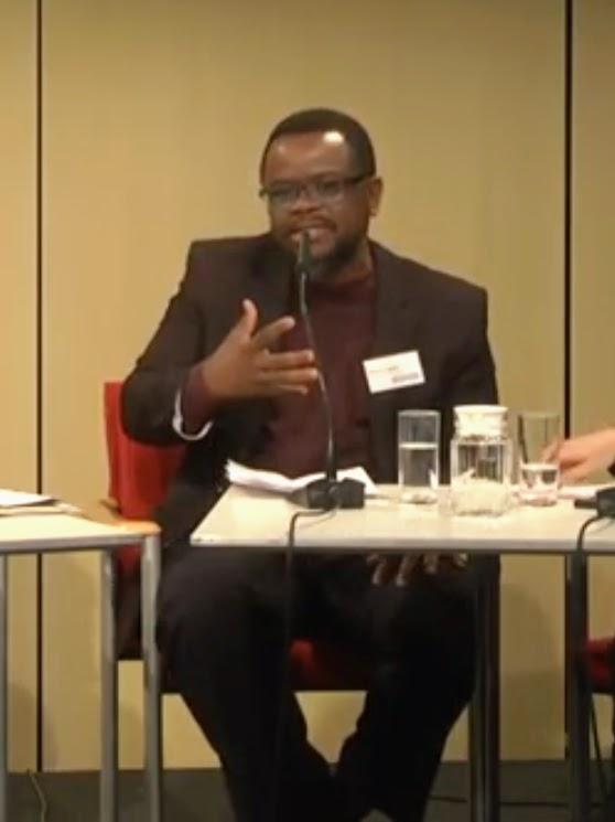 Obiora Chinedu Okafor (Professor of Law, York University, Canada / Nigeria)